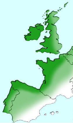 Atlantic Arc in dark green